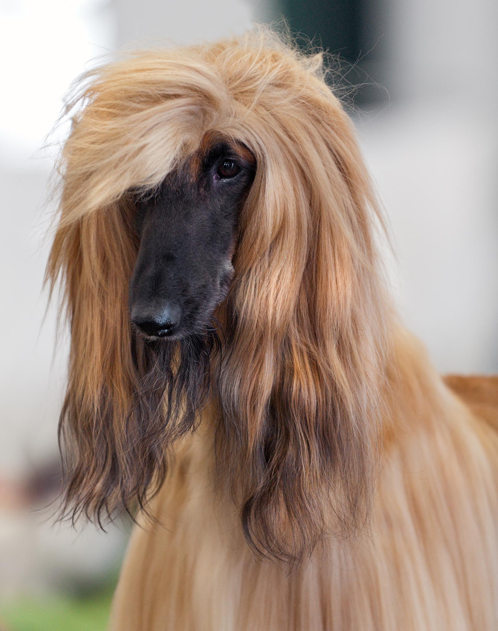 Afghan Hound